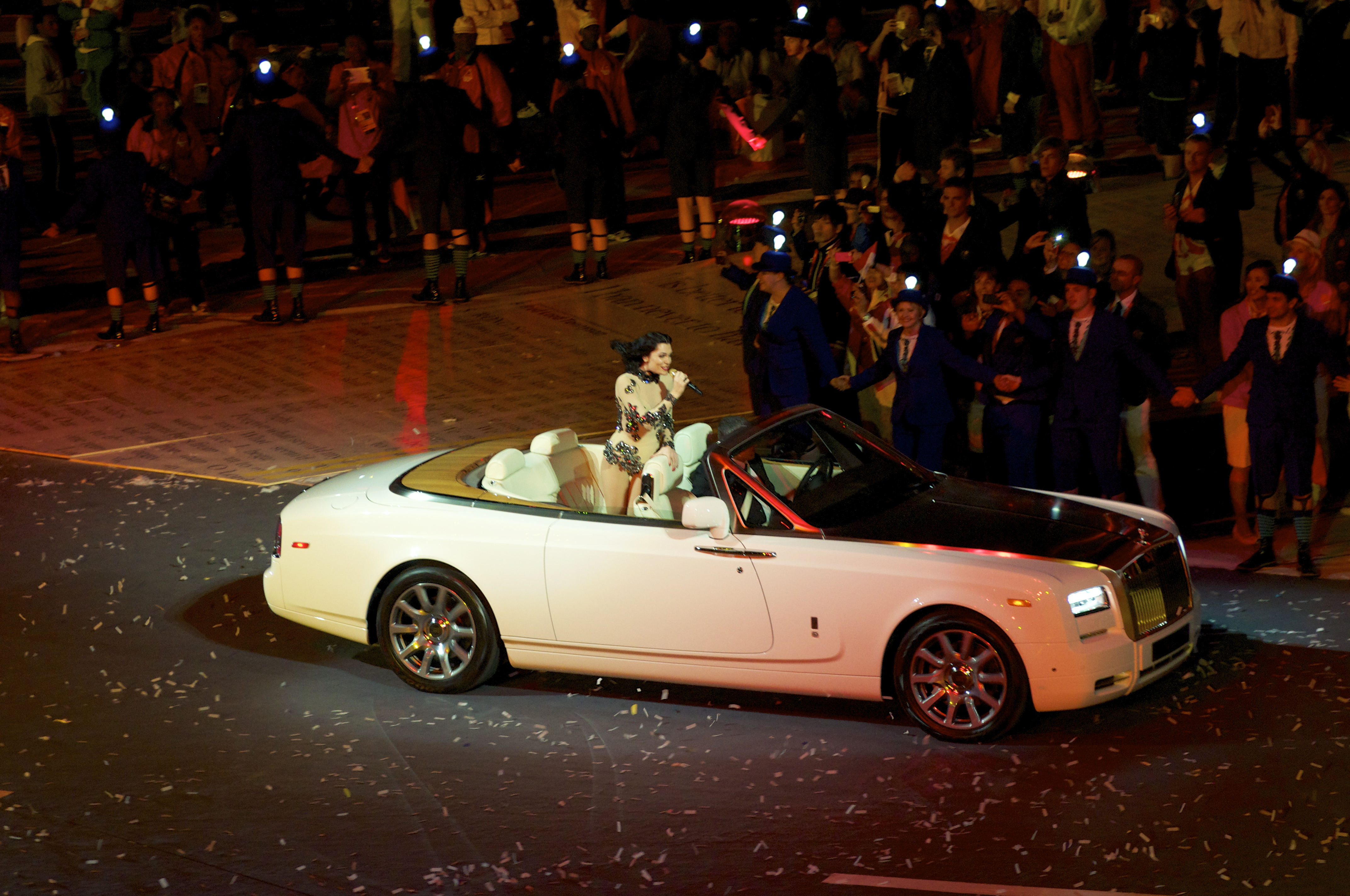 Jessie J performing "Price Tag" in the closing ceremony of the 2012 Summer Olympics.